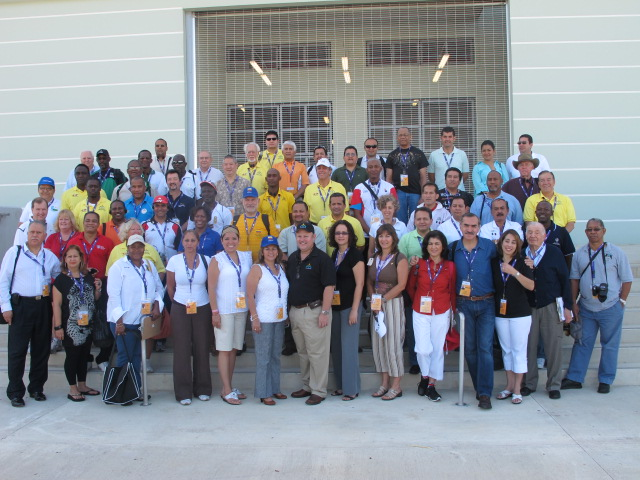 foto taken by me of Mission Chiefs Meeting of ODACABE Nations